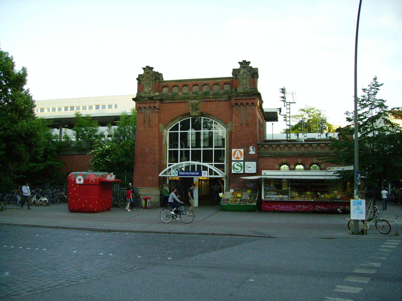 Sternschanze railway station station, entrance S-Bahn, Hamburg, Germany